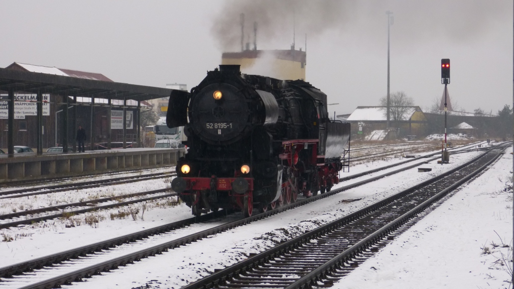 Steam Locomotive 52 8195-1 of Fraenkische Museumseisenbahn at the German trainstation Hersbruck (rechts Pegnitz).